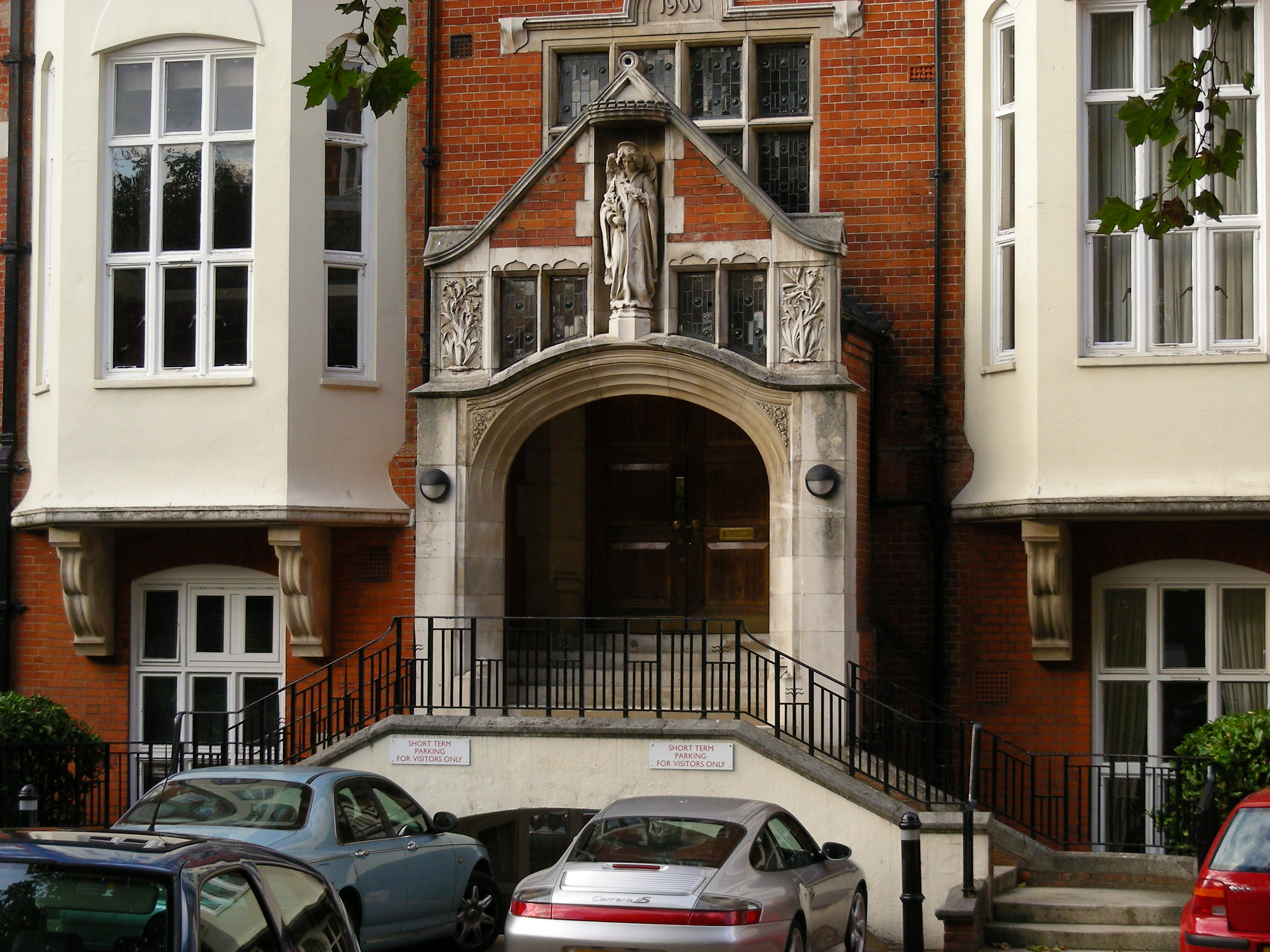 Entrance of St Gabriel's Manor London SE5 9RH formerly Goldsmiths College Millard Building through 1988.